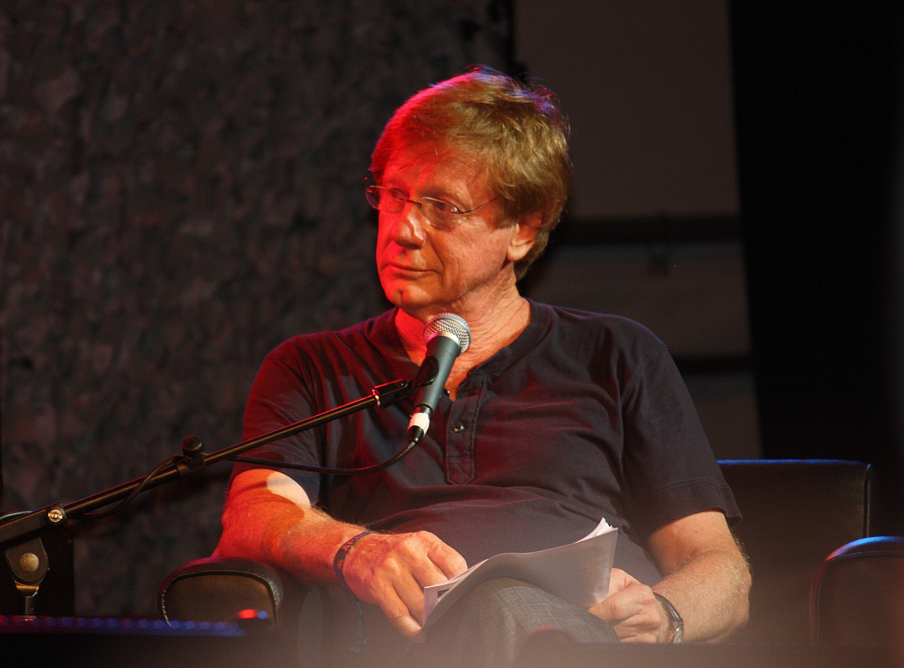 Kerry O'Brien is a prominent Australian journalist who currently comperes The 7.30 Report on ABC national TV. At the Woodford Folk Festival, he conducted a couple of standing-room-only interview shows, called "Kerry and the Couch", where he interviewed such guests as former Australian Prime Minister Bob Hawke.